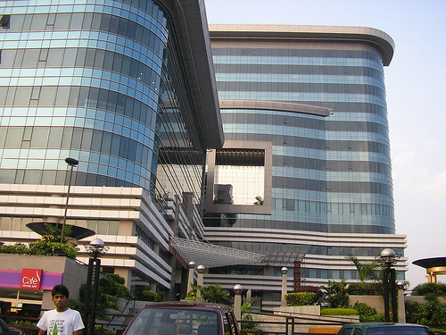 author:seaview99 from , according to author's permission as given here